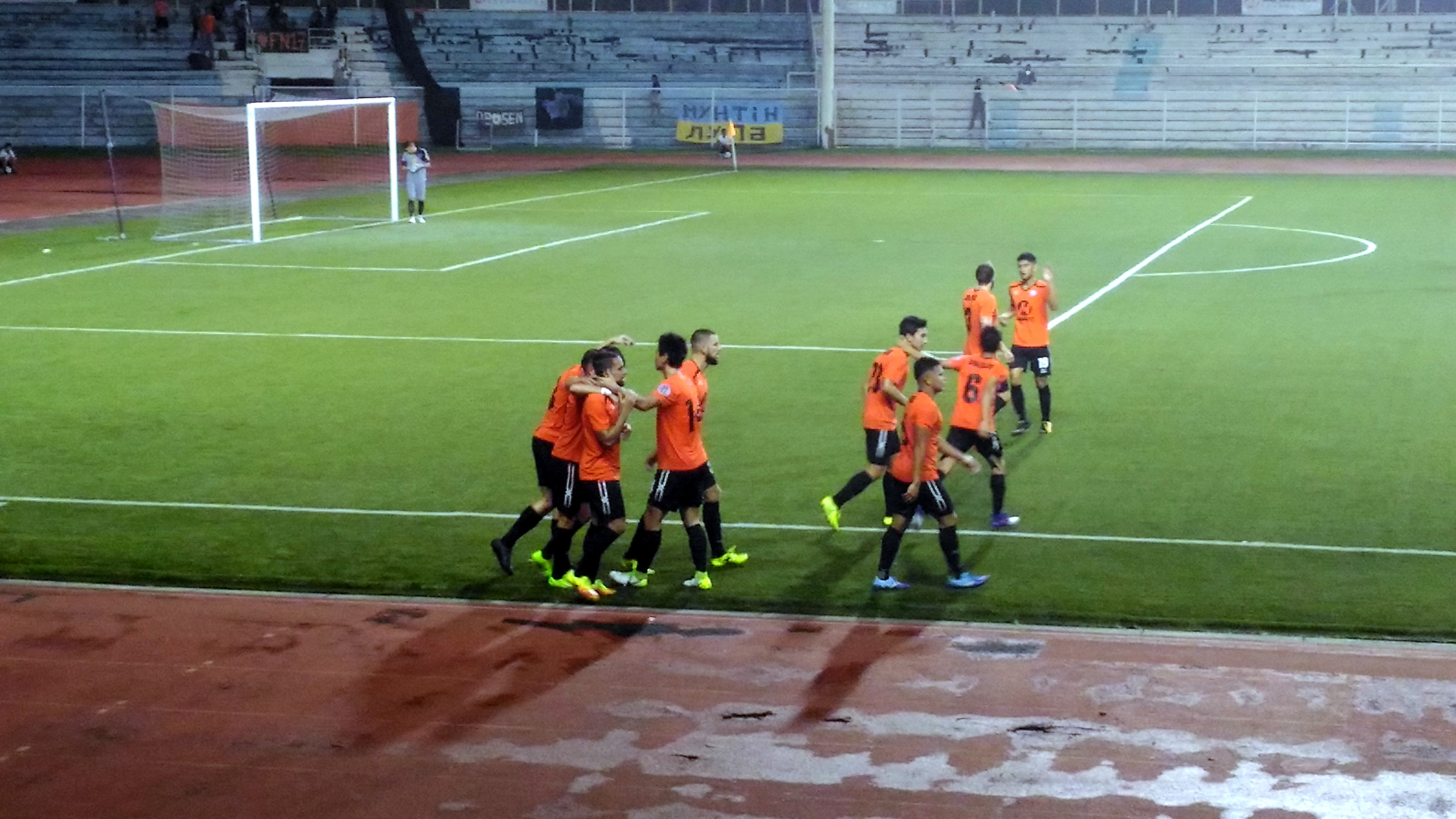 The celebration after scoring their first goal by the FC Meralco Manila (FCMM) during their Philippine Football League (PFL) match against the Davao Aguilas FC (DAFC) last Saturday, September 23, 2017 at the Rizal Memorial Stadium.